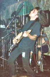 Robert Hampson performing with Godflesh. This photo is a modified version of File:Godflesh Camden.png. I am copying the licensing information from that page.